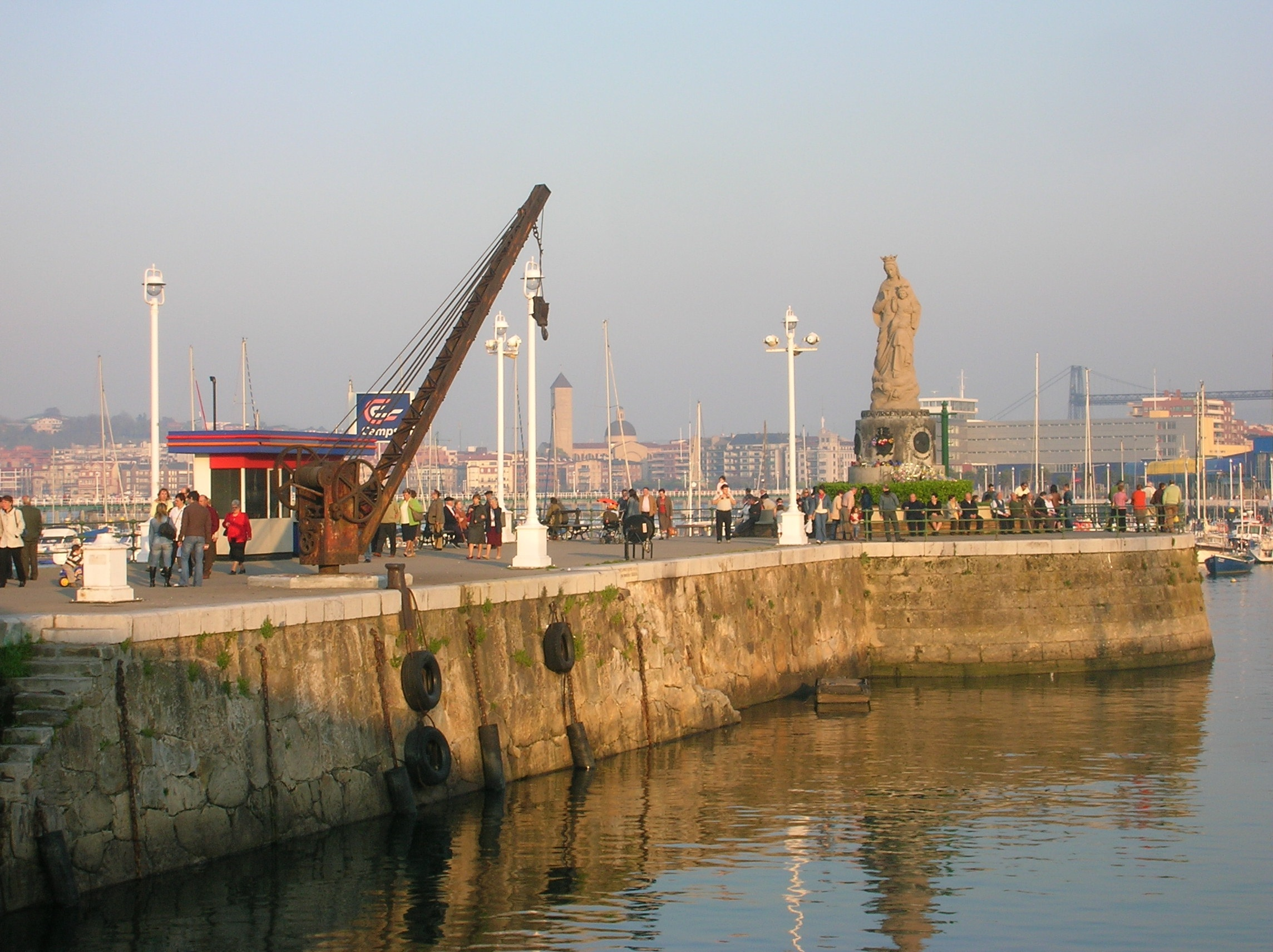 Port of Santurtzi (and Skyline of Areeta-Las Arenas, Getxo, at the background) Biscay, Spain